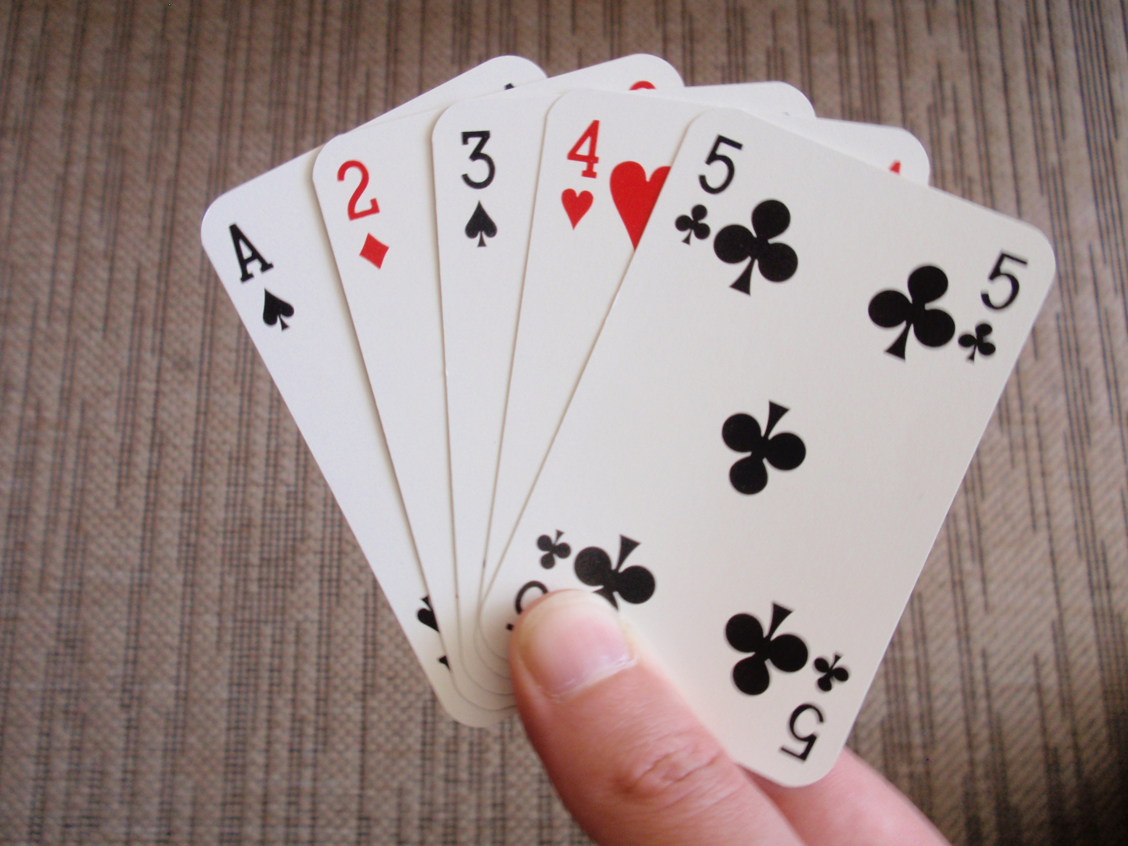 Ace to Five Draw - Perfect hand